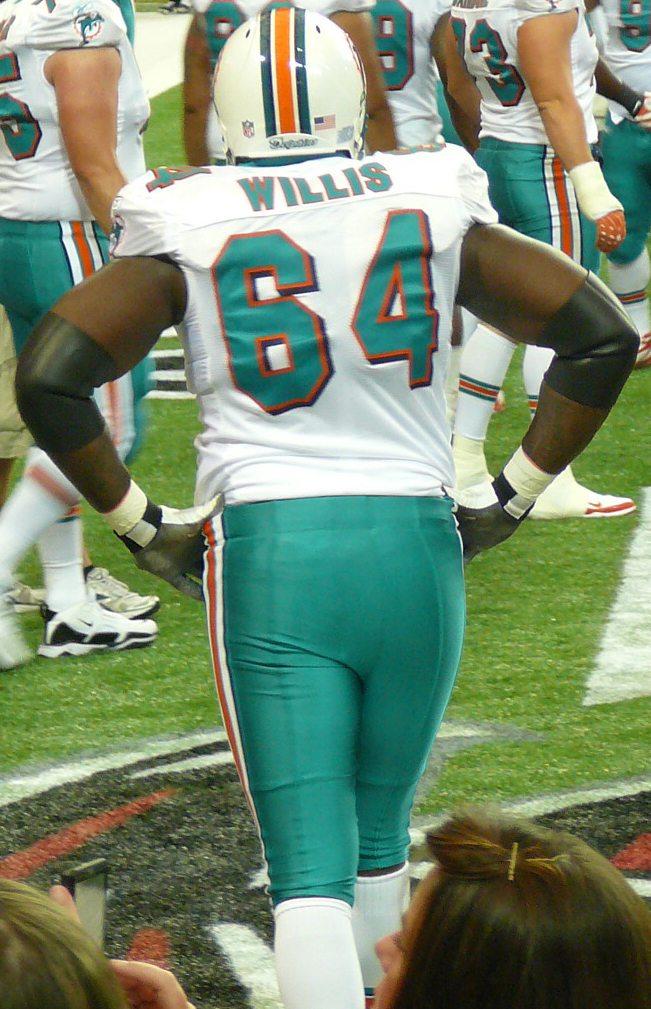 If used somewhere other than Wikipedia, Nelson, by name.